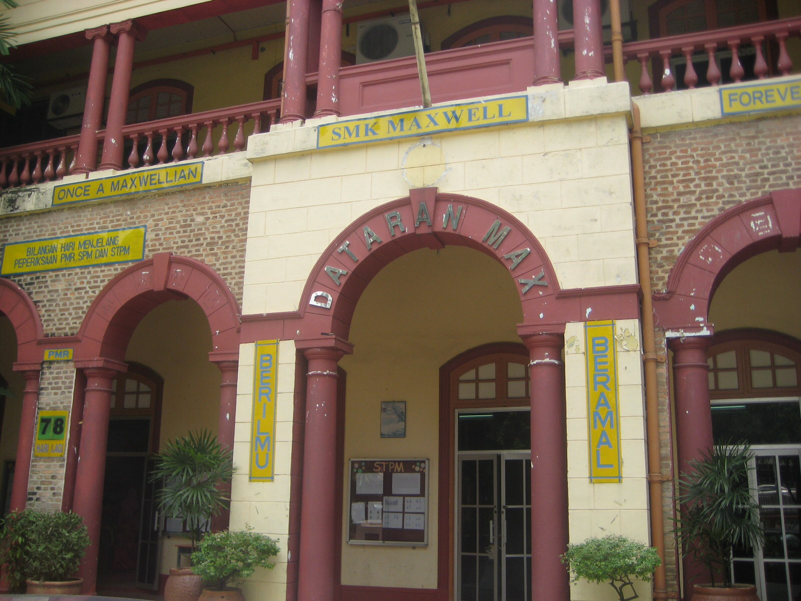 The main building